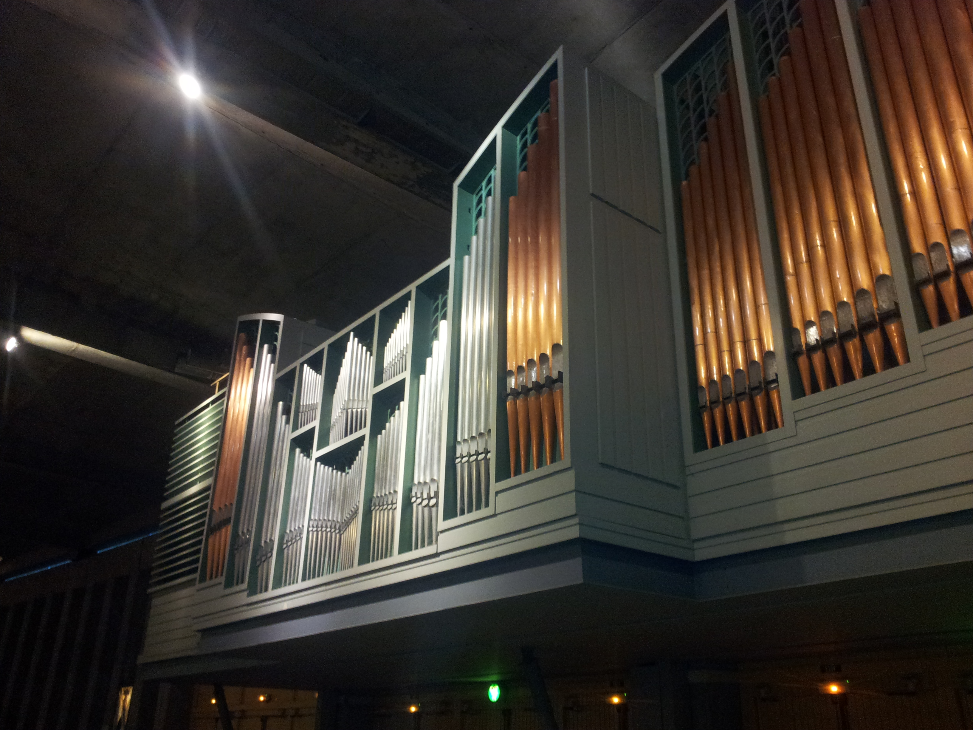 Reed organ of the Basilica of St. Pius X.